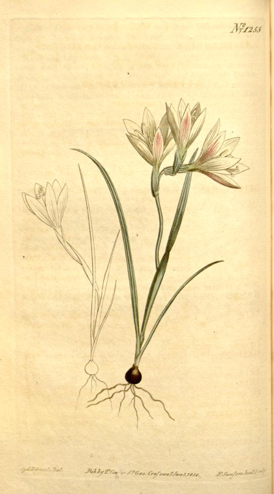 Illustration of Geissorhiza setacea